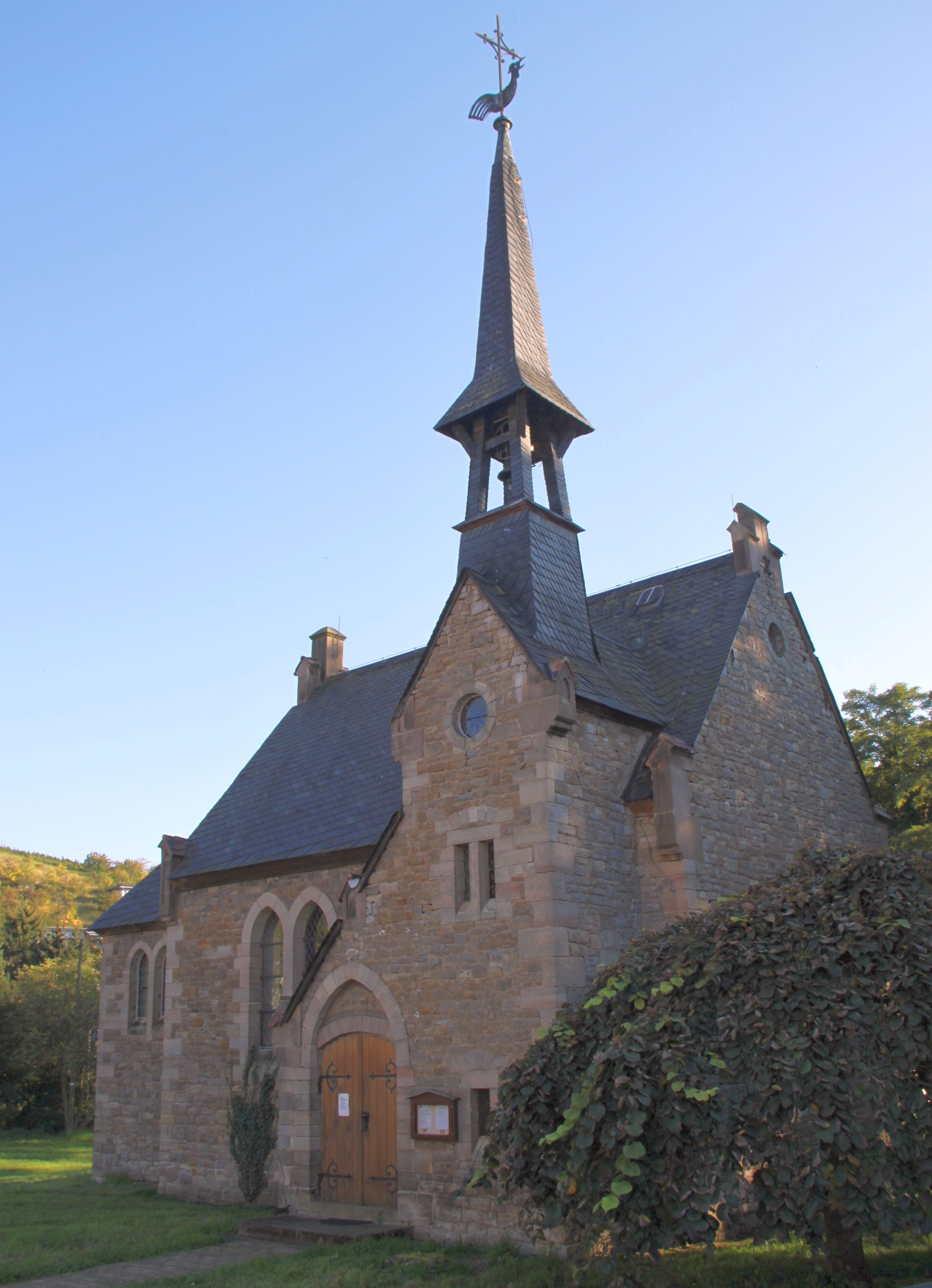 The church of Rollsdorf, Saxony-Anhalt